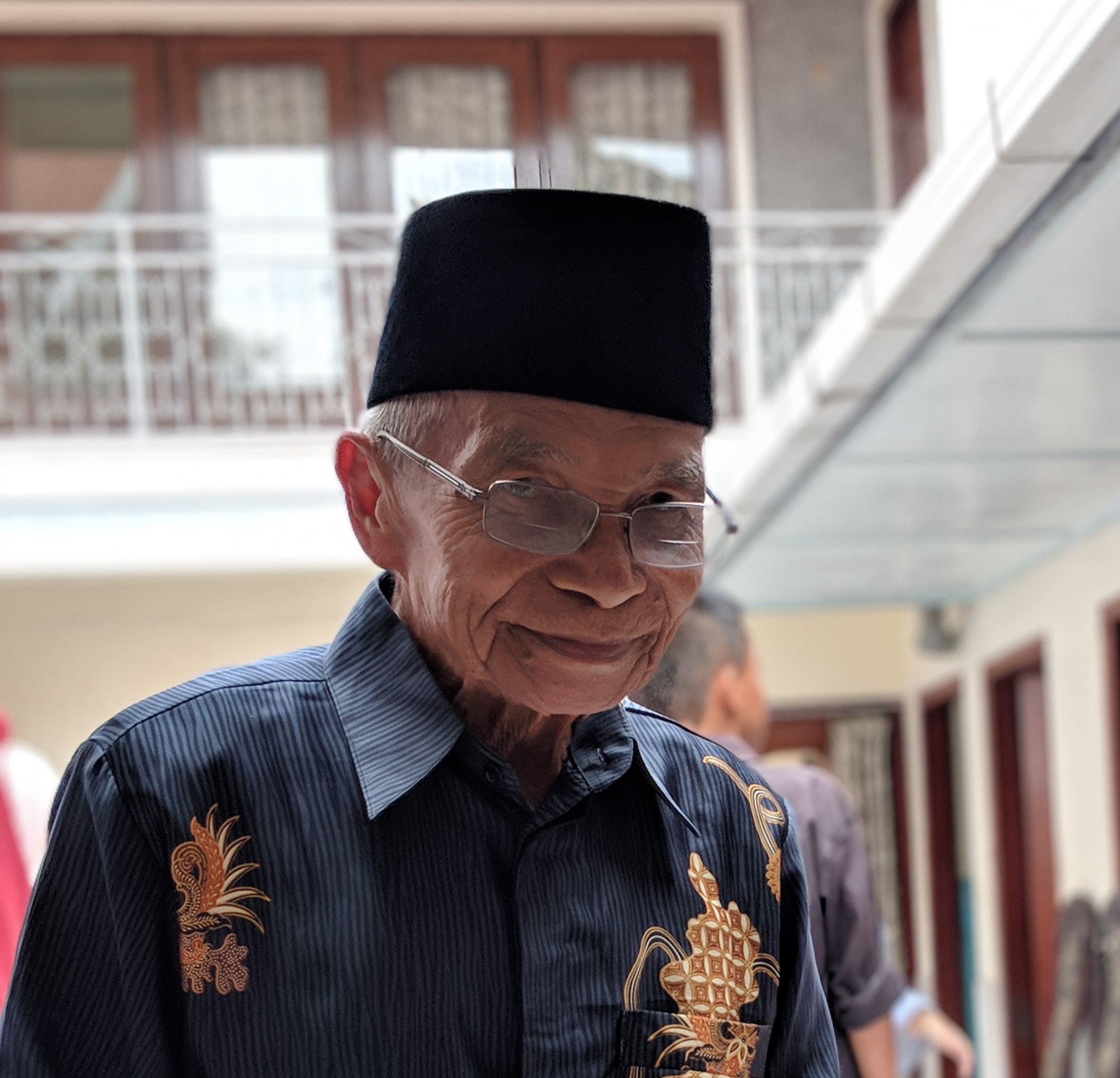 Indonesian agricultural businessman Adnan Sutan Samik in Kamang Hilir, West Sumatra, 2018